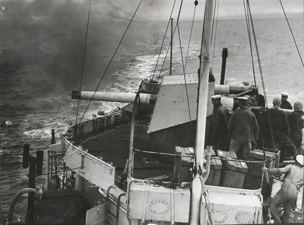 QF 4-inch Mk V gun on Australian destroyer HMAS Vampire.